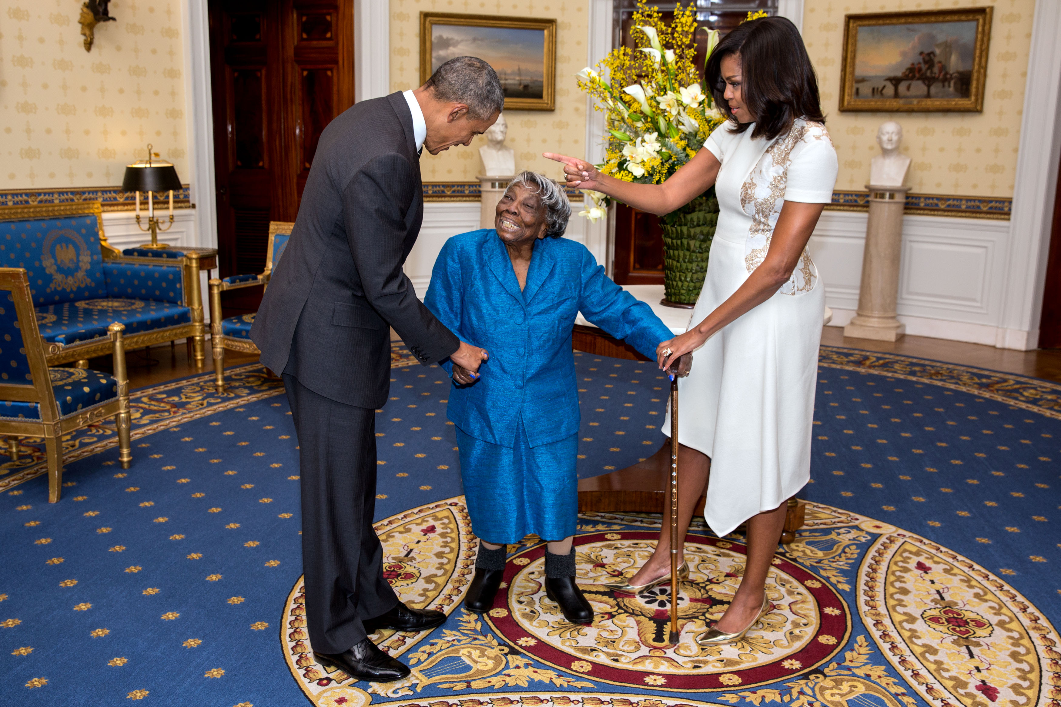 President Barack Obama and First Lady Michelle Obama greet 106-Year-Old Virginia McLaurin during a photo line in the Blue Room of the White House prior to a reception celebrating African American History Month, Feb. 18, 2016. (Official White House Photo by Lawrence Jackson)